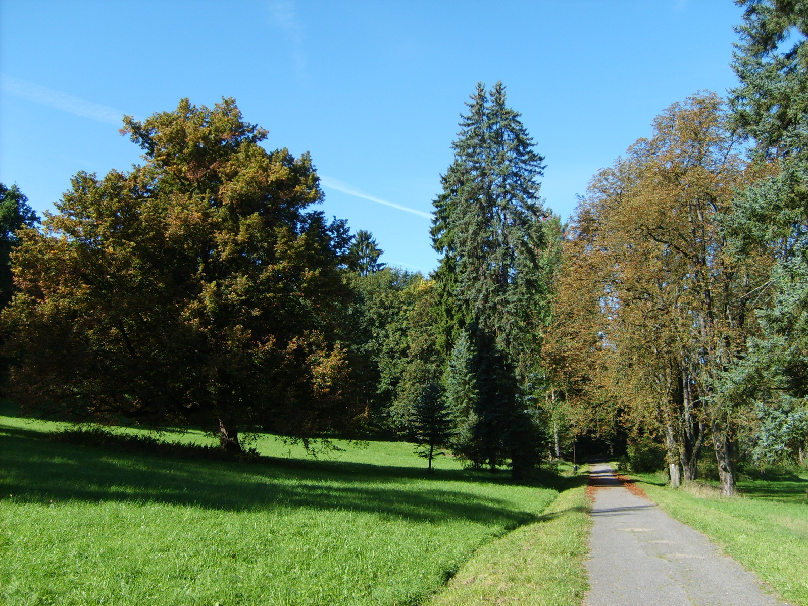 English park near chateau Konopiště